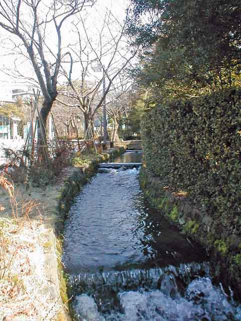 Photographer:User:Makimoto Title: Tatsumi canal